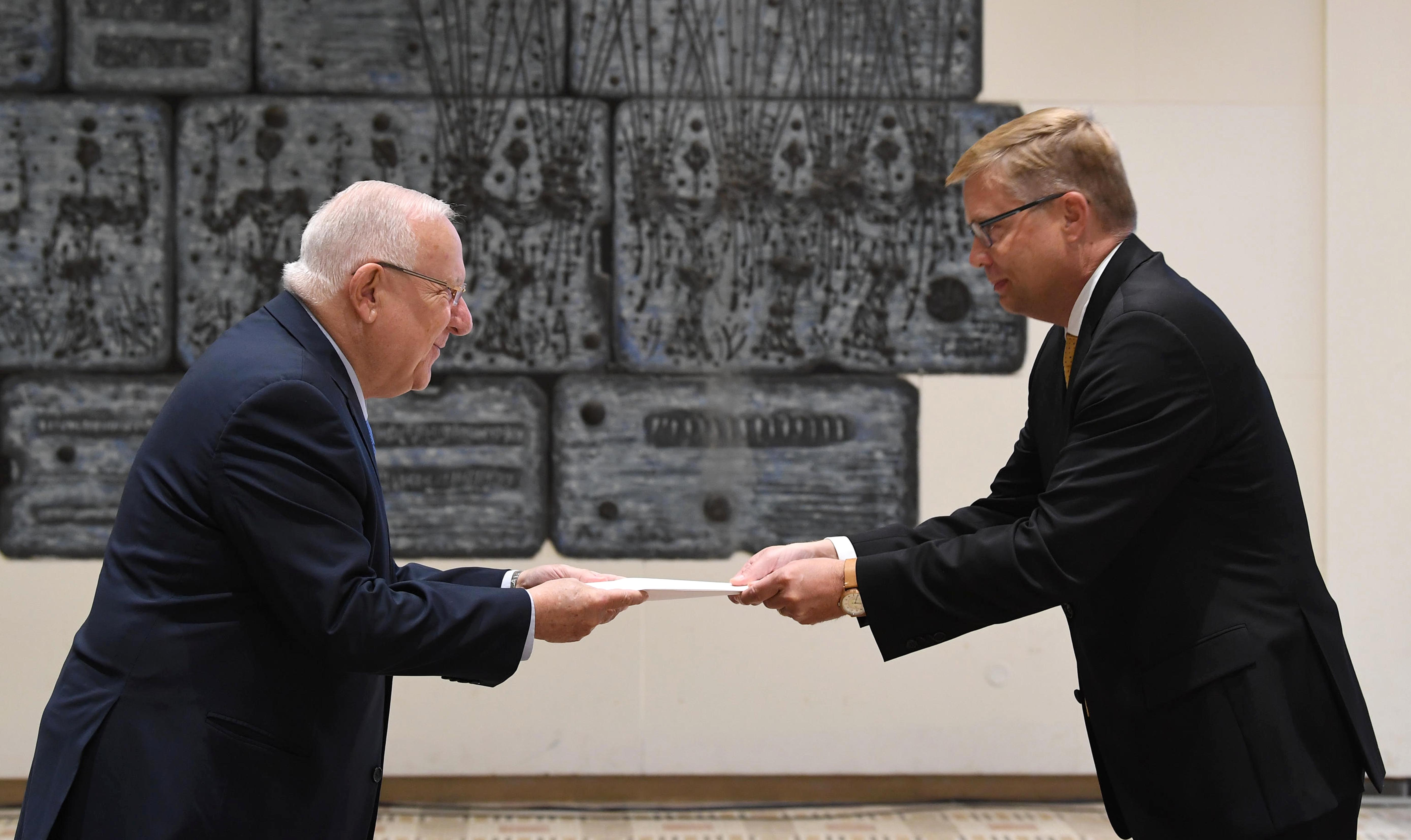 President Reuven Rivlin receives the credentials of the new ambassadors from Sweden, Portugal, Uruguay and the Vatican - upon their entry as ambassadors of their countries in Israel. Wednesday, November 29, 2017. Photo Credit: Mark Neyman / GPO.